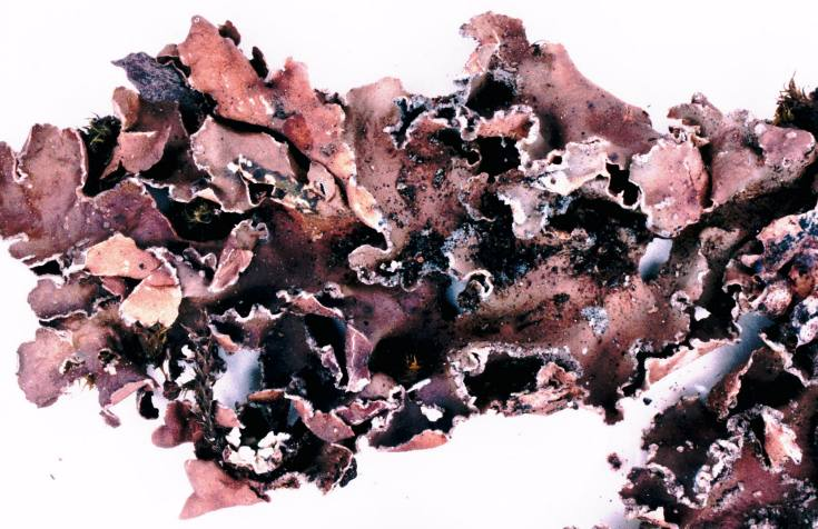 Nephroma parile (Ach.) Ach., 1810 (photograph of a herbarium specimen) Growing on a moist rock in conifer woods along the shore of Lake Superior in Neys Provincial Park, ca. 15 miles N of Marathon on Route 17, Thunder Bay District, Ontario, Canada; collected and identified by Richard E. Riefner (No. 81-610, 2 Aug 1981); specimen is now in the Lichen Herbarium of the New York Botanical Garden.